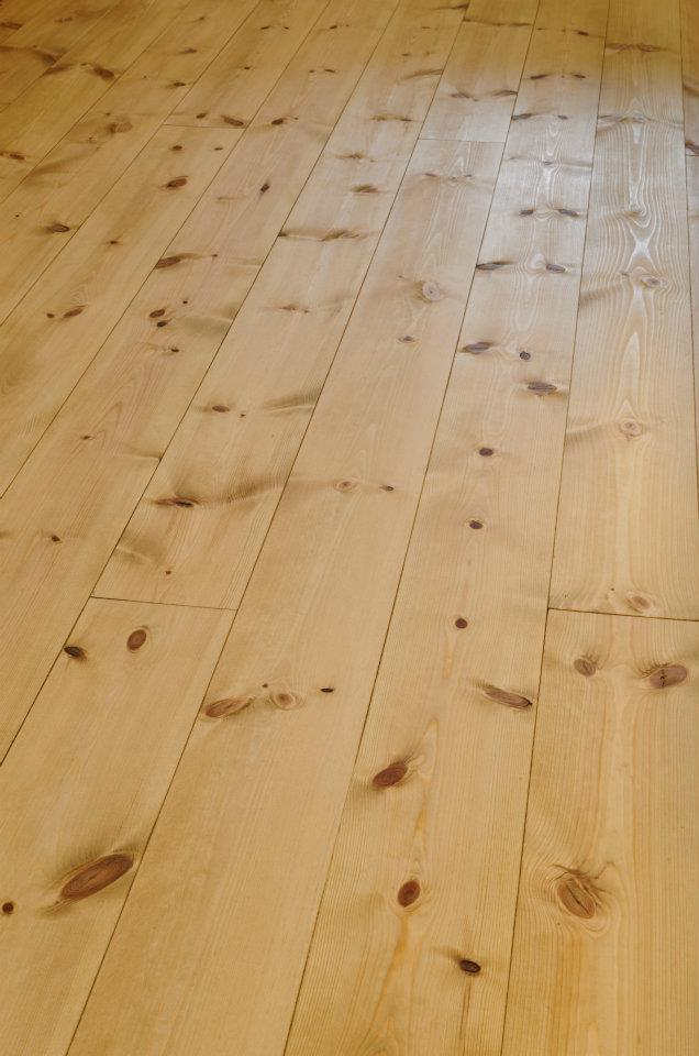 Pinus_solid_floor （150mm×4000mm）